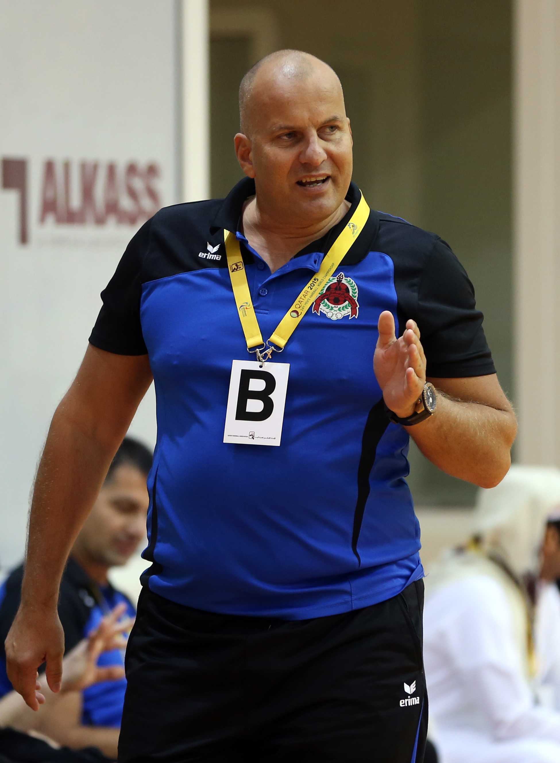 Al Rayyan's Croatian coach Nenad Kljaic gives instructions to his players during a Federation Cup game in Doha.